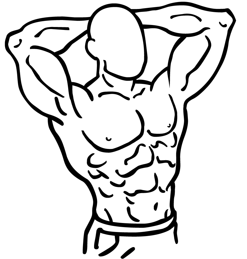 an exercise of neck